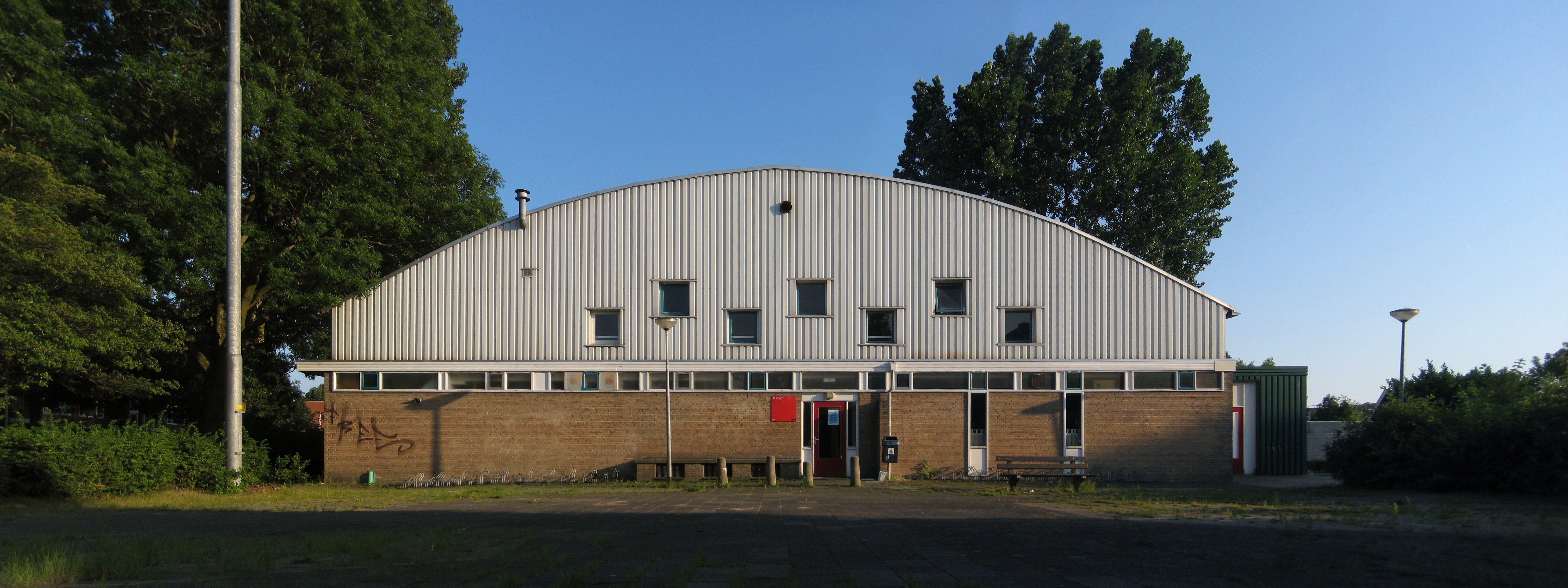 Sports hall De Wijert (1966) in the Dutch city of Groningen.